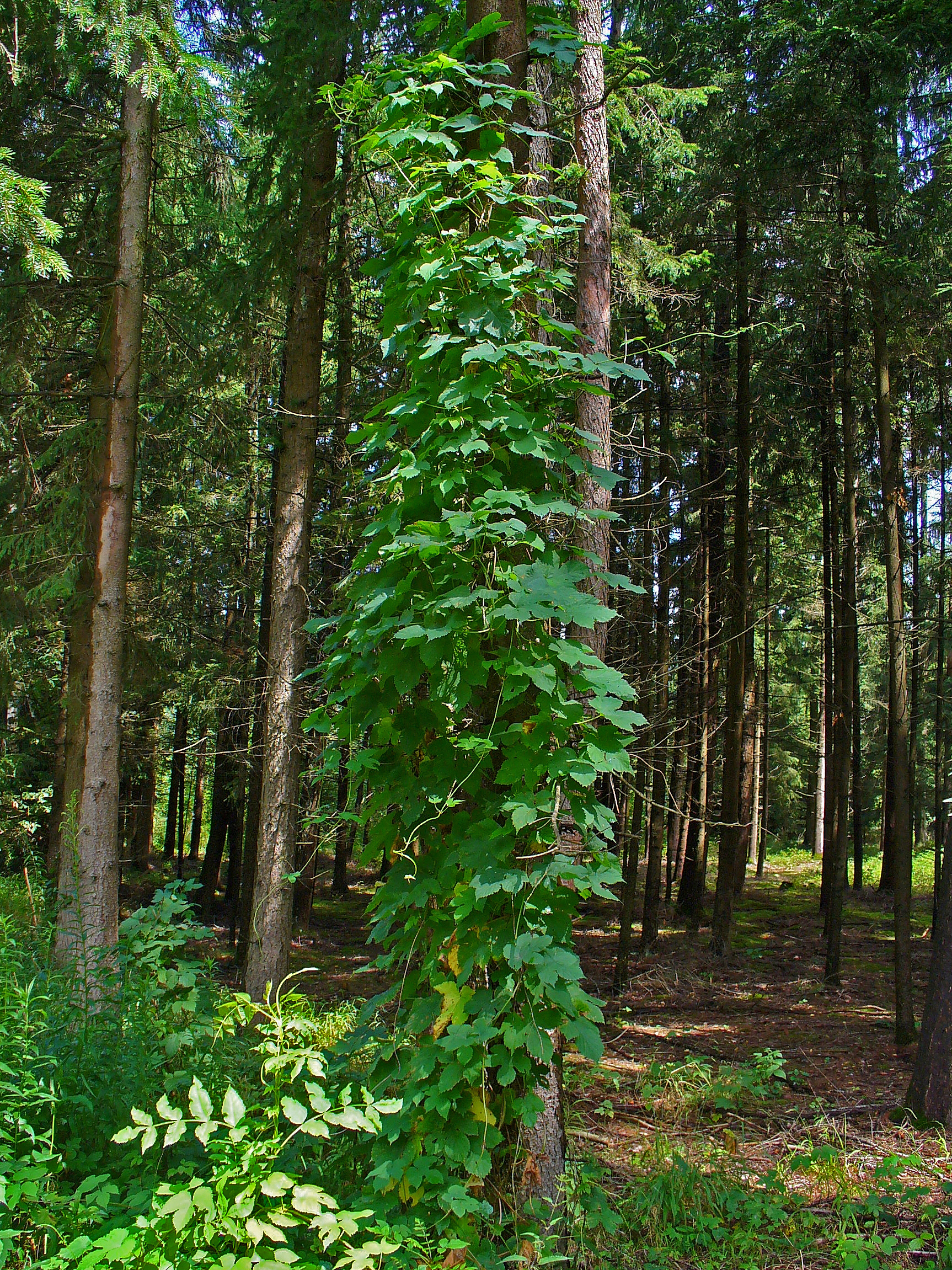 Common Hop, habitus; Mintraching, Bavaria, Germany.